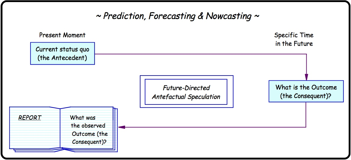 Taken from page 145 of Yeates, L.B., Thought Experimentation: A Cognitive Approach, Graduate Diploma in Arts (By Research) dissertation, University of New South Wales, 2004.